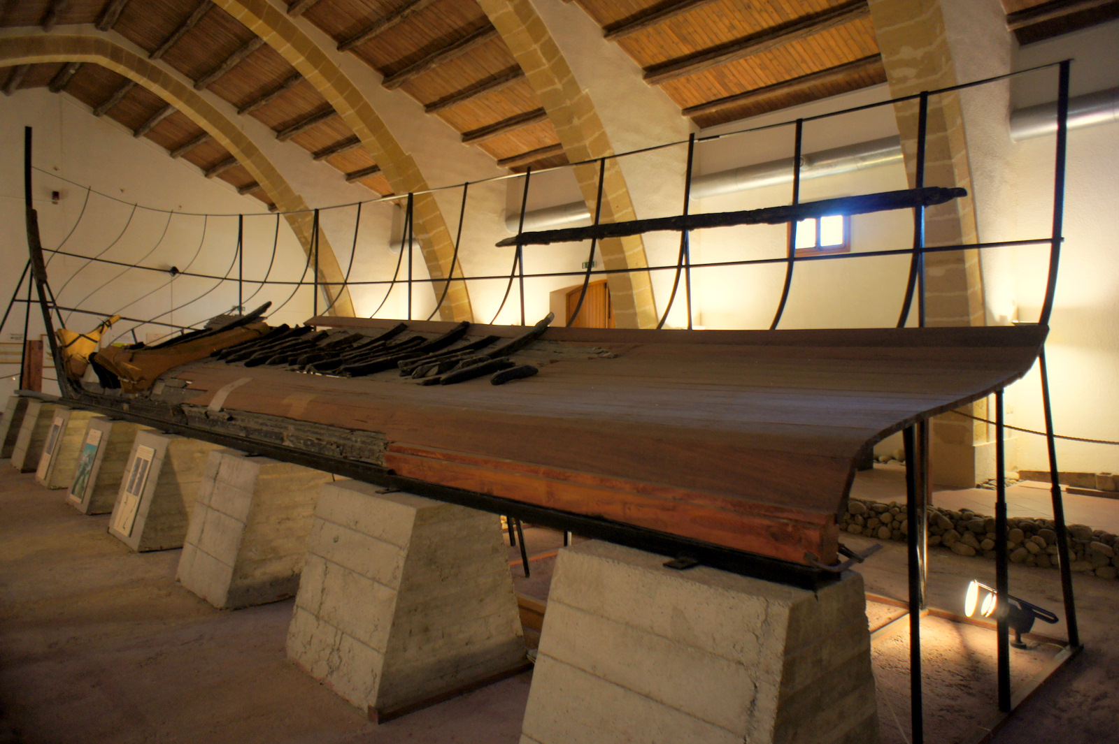 The Marsala ship